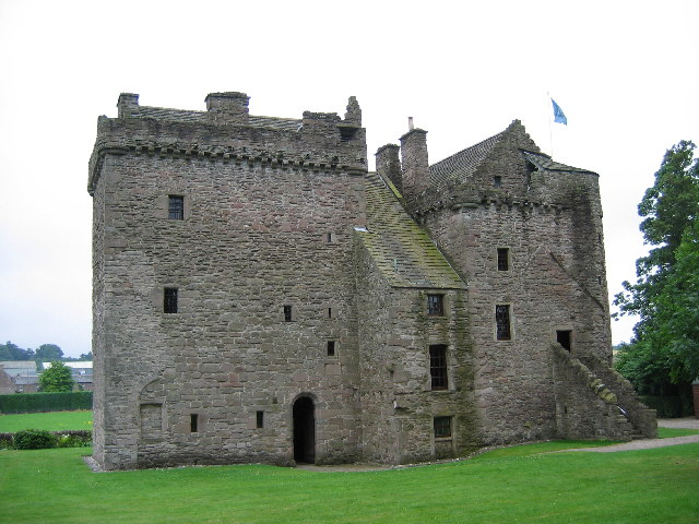 Huntingtower Castle, near Perth